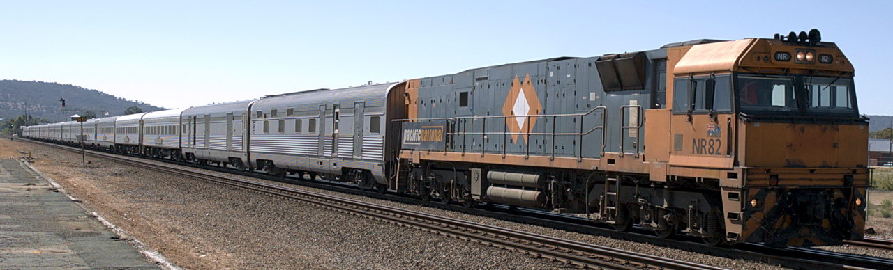 Indian Pacific passenger train arrives at Midland, Western Australia.